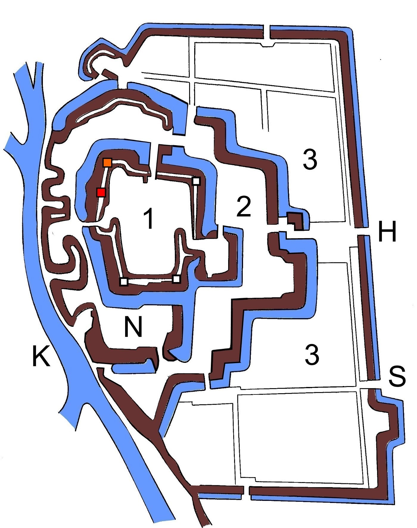 Layout of old Takasaki Castle